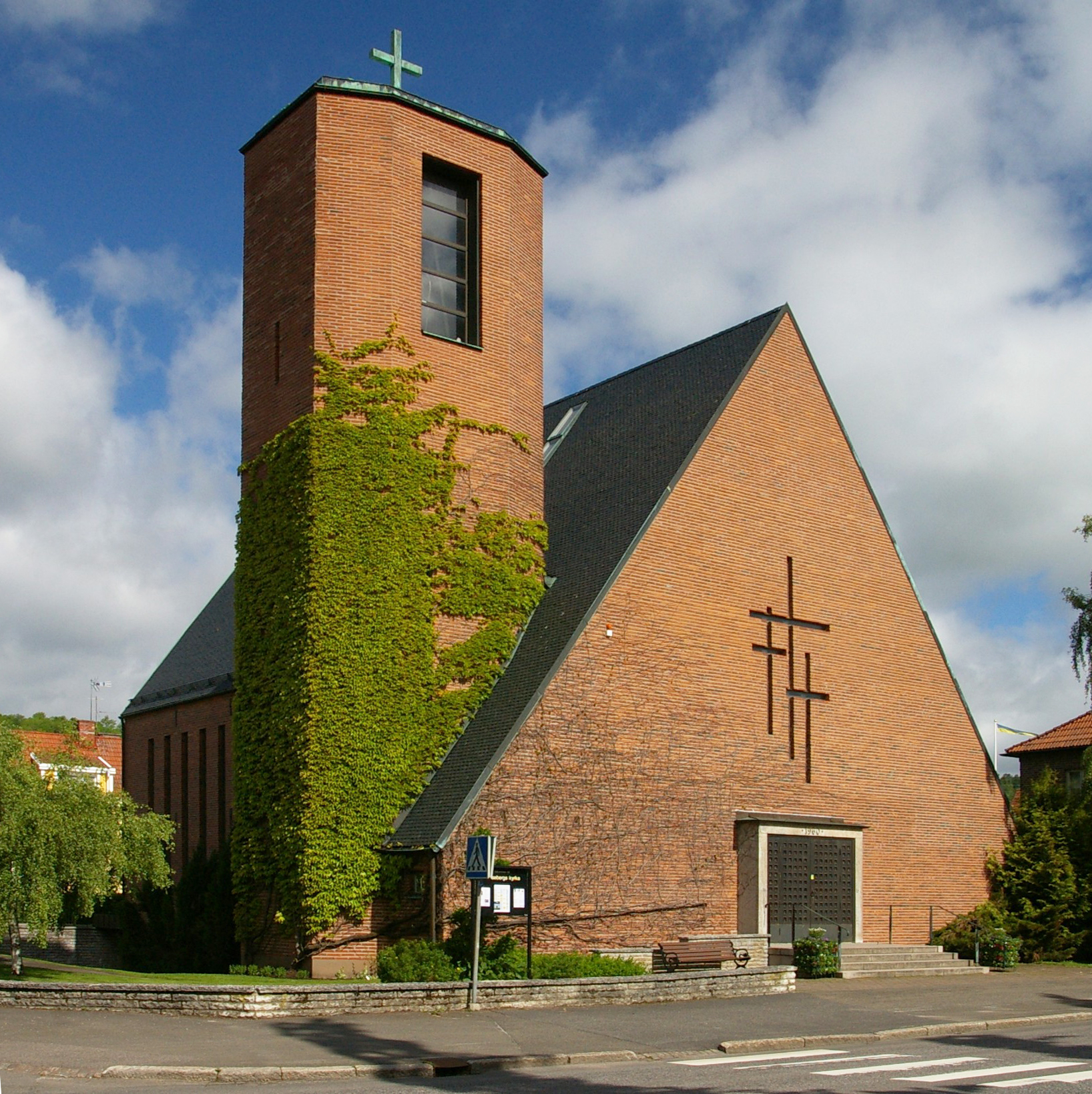 Mössebergs kyrka (swedish: church of Mösseberg) situated in Falköping, Västergötland, Sweden. The church was built in 1960.